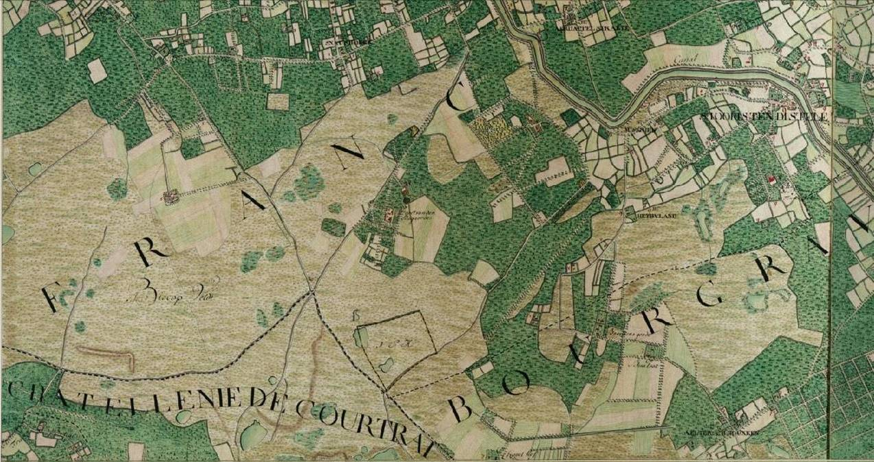 Bulskampveld, Ferraris, 1777.jpg